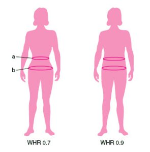 A comparison of a desirable waist-to-hip ratio (0.7) and an undesirable waist-to-hip ratio (0.9).